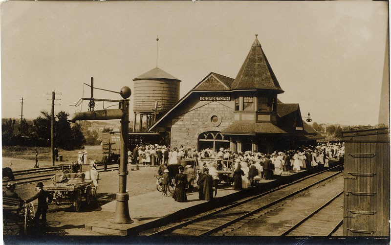 A crowd waits for the train outside the Grand Trunk Railway station in Georgetown in 1908